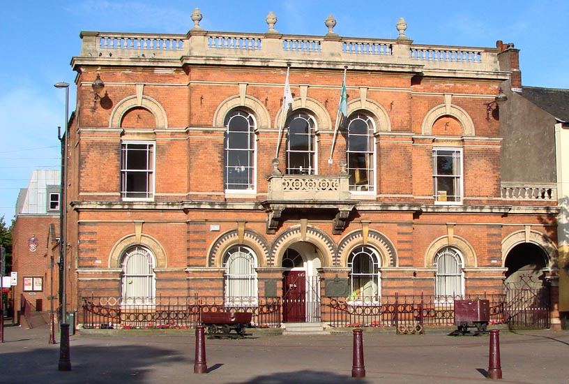 Ilkeston Town Hall, Derbyshire, UK was originally built by the town's Local Board in the Italianate style and opened in 1866.